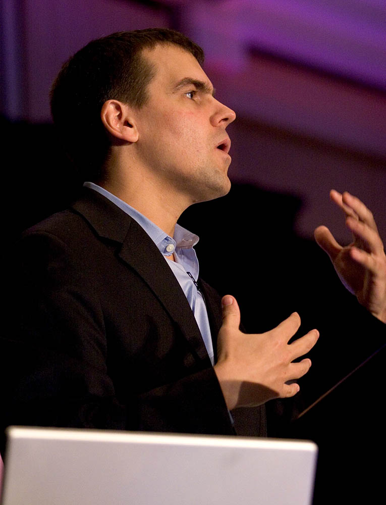 James Surowiecki This photograph was taken during the 2005 O'Reilly Emerging Technology Conference in San Diego, California at the Westin Horton Plaza Hotel.